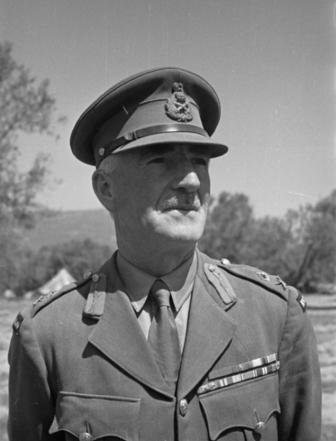 Portrait of Lieutenant General Edward Puttick, CBE, DSO, taken in the Venafro area in Italy, circa 30 May 1944 by George Robert Bull. Bull, George Robert, 1910-1966. Lieutenant General Edward Puttick, CBE, DSO - Photograph taken by George Bull. New Zealand. Department of Internal Affairs. War History Branch :Photographs relating to World War 1914-1918, World War 1939-1945, occupation of Japan, Korean War, and Malayan Emergency. Ref: DA-05916-F. Alexander Turnbull Library, Wellington, New Zealand. George Bull was an official photographer of the NZ Military Forces and thus copyright in this work rests or rested with the Crown. The Crown has released this work under the CC-BY 3.0 NZ license. Refer to source website for details: This work's copyright expired 50 years after creation in New Zealand and probably also in countries following the rule of the shorter term.